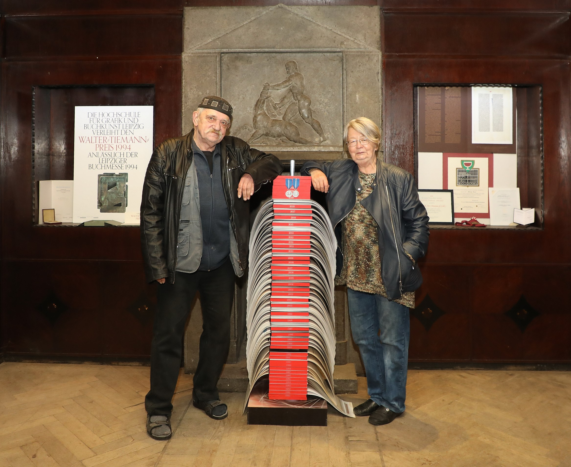 Janusz & Jadwiga Tryzno - founders of Book Art Museum